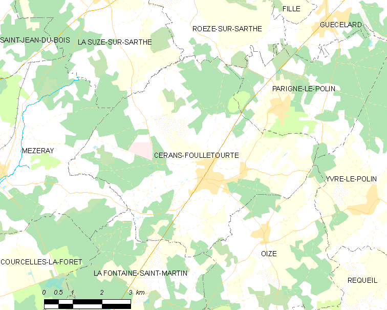 Map of French municipality